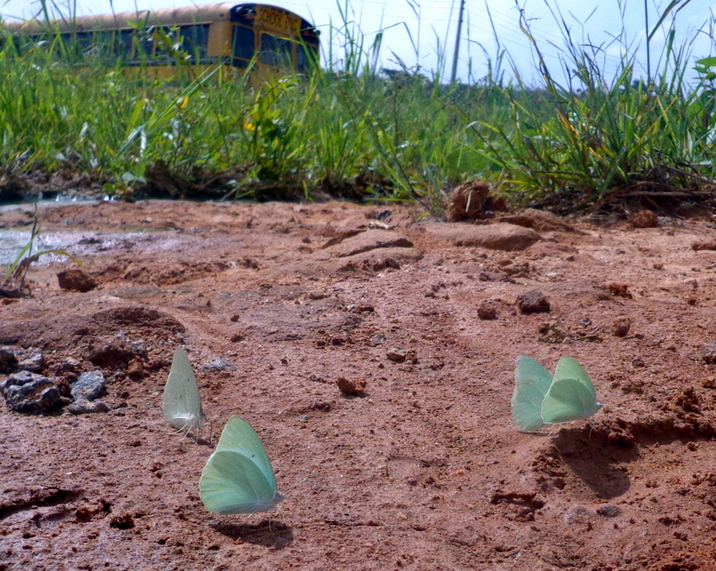 Catopsilia florella